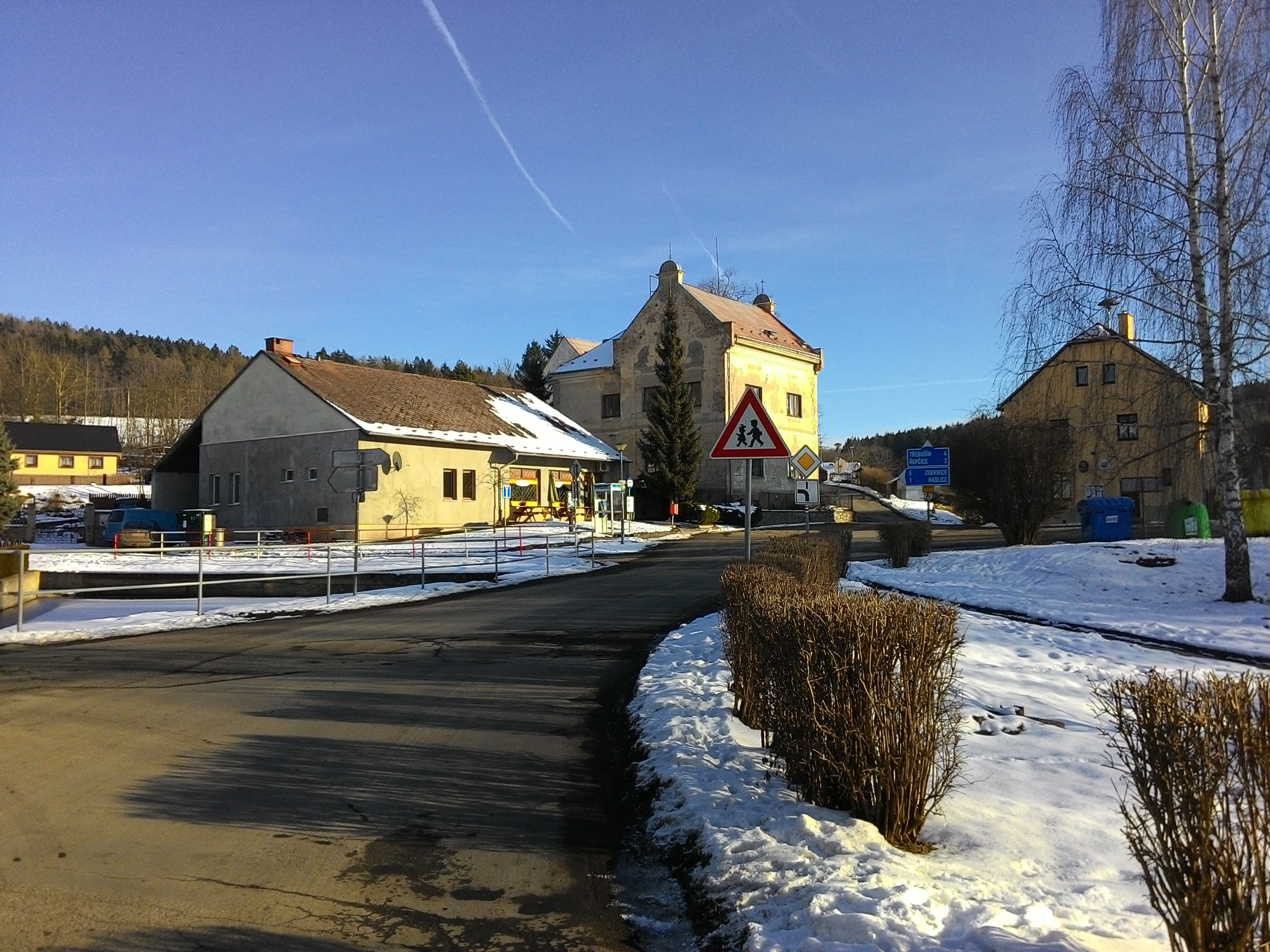 Main crossing in the village of Homole u Pany, Ústí Region, CZ